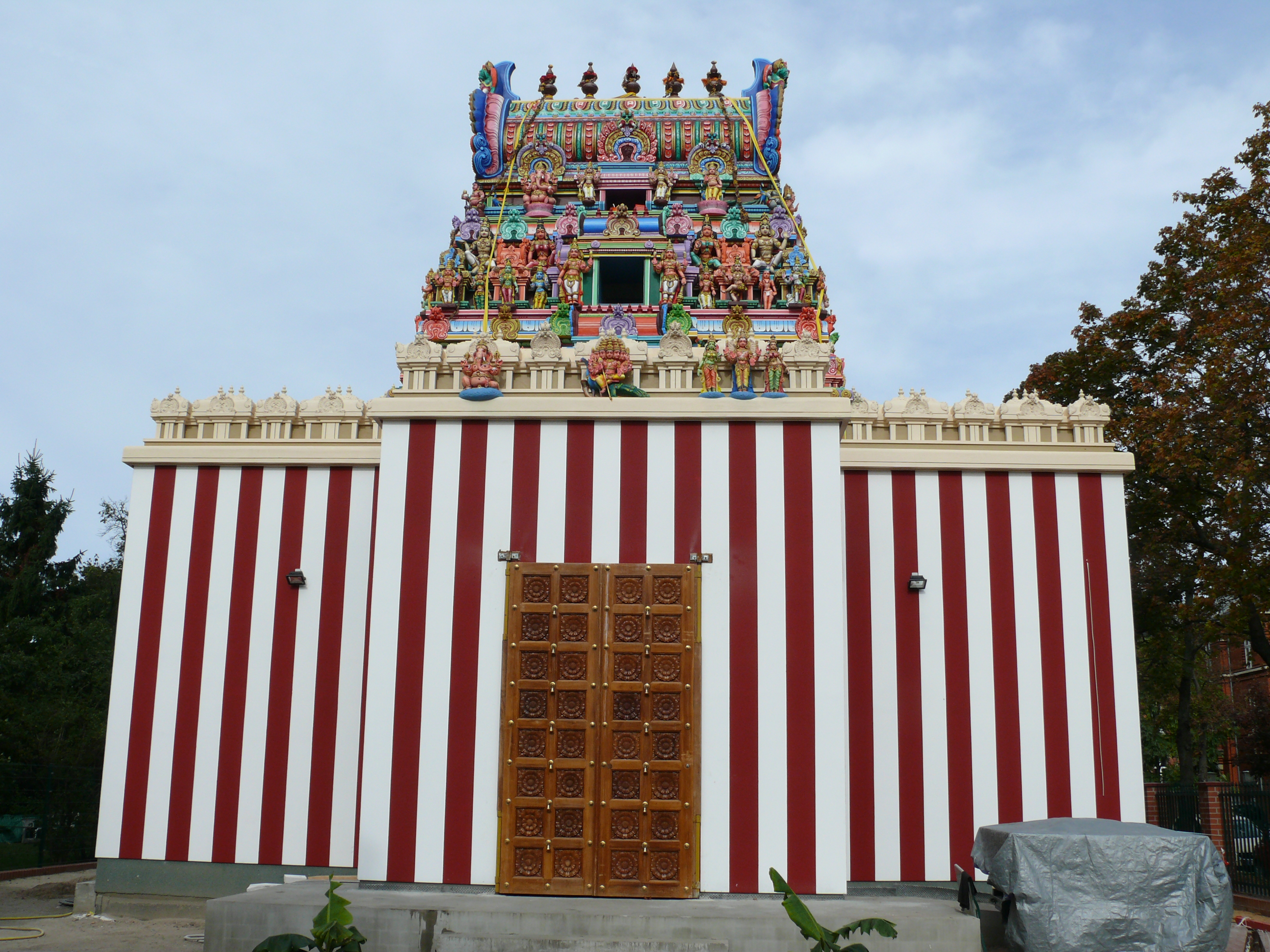 Berlin-Britz Blaschkoallee